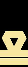 Second mate epaulette